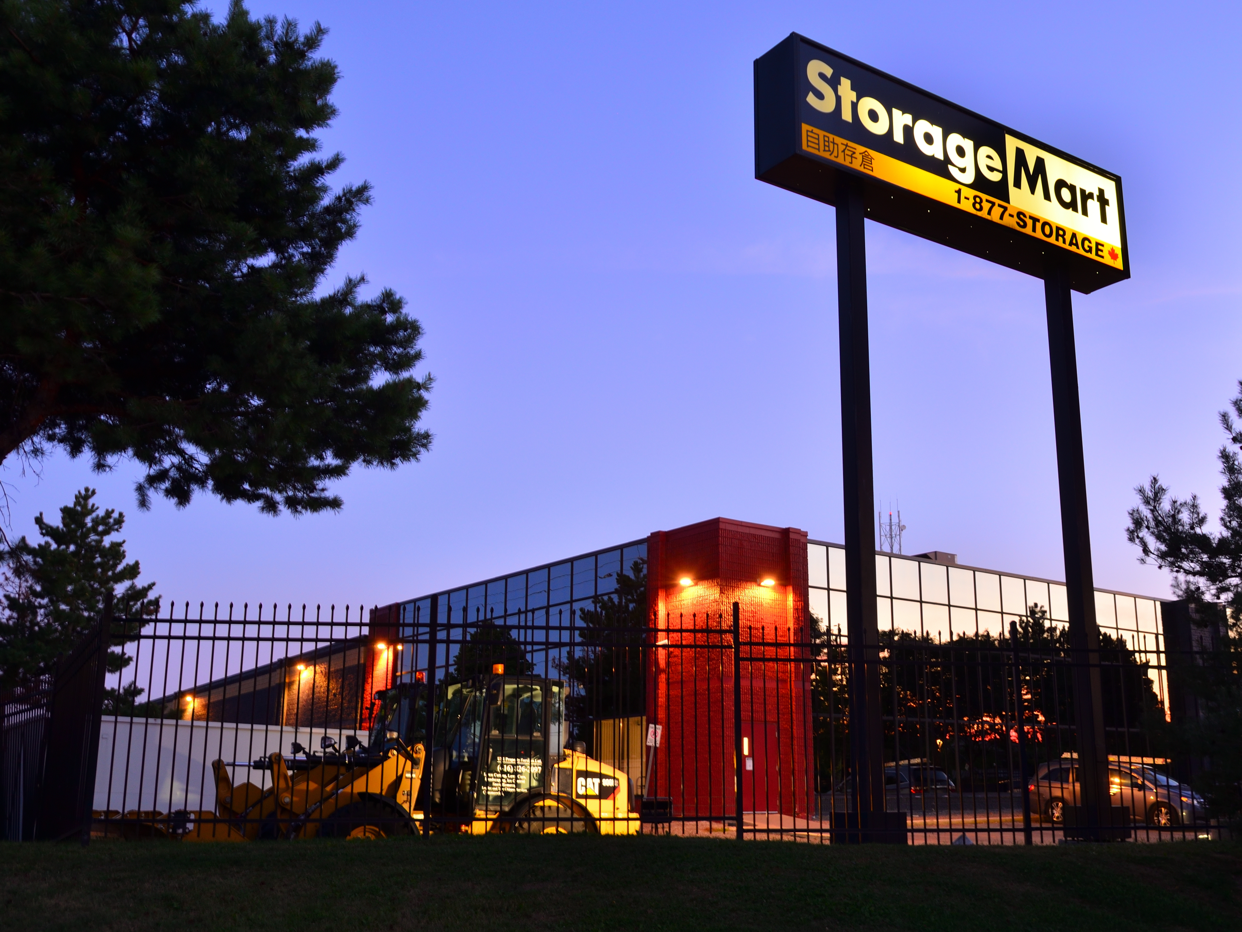 StorageMart - Address: 605 Alden Rd, Markham, ON L3R 3L5